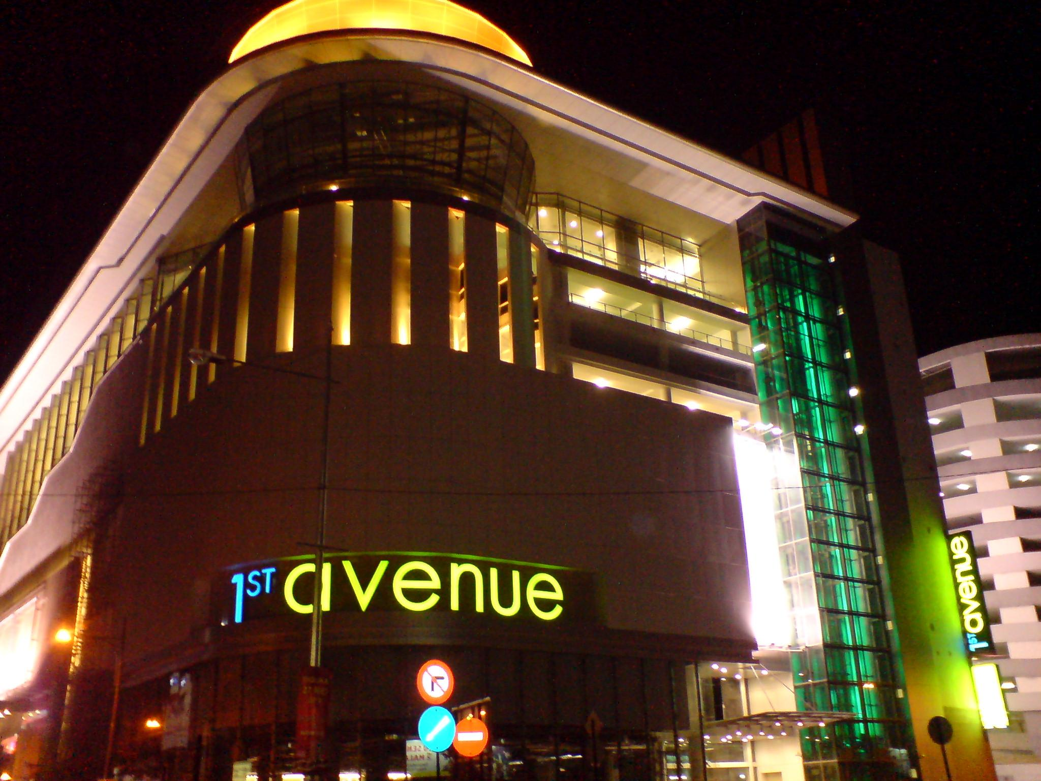 Night at 1St Avenue